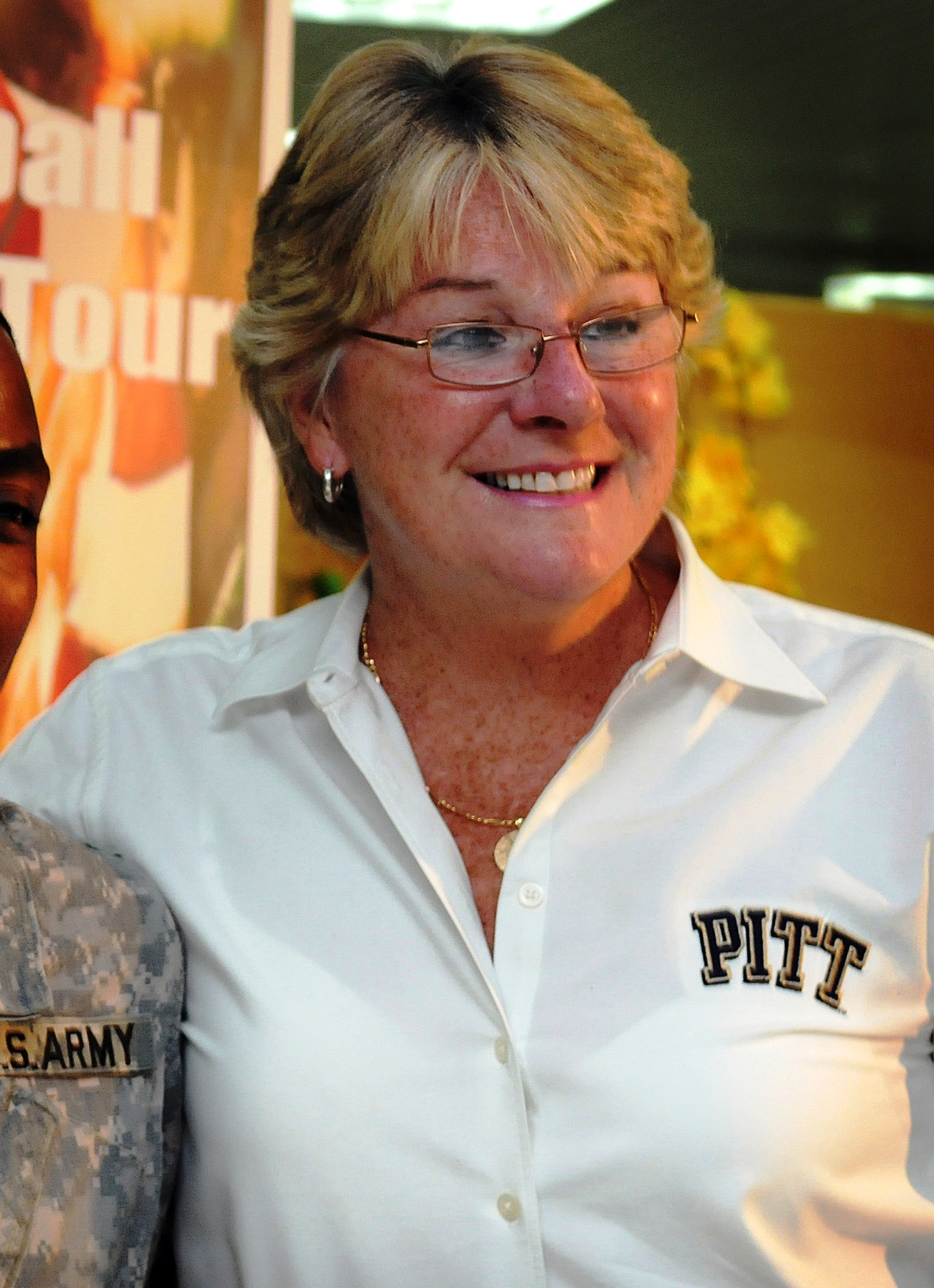 U.S. Army Staff Sgt. Bryan Smith (not pictured), from Philadelphia, Pa., poses for a photograph with National Collegiate Athletic Association basketball coaches at Camp As Sayliyah, Qatar, Aug. 11. Orlando Early (not pictured), University of Louisiana-Monroe men's basketball head coach, and Agnus Berenato, University of Pittsburgh women's basketball head coach, traveled overseas to offer U.S. troops gratitude and encouragement, along with three other NCAA basketball coaches. Next, the five coaches will travel to several locations in Afghanistan, where they will attempt to make two stops per day, according to a representative with Koeberle and Associates, the sports marketing agency coordinating the trip.